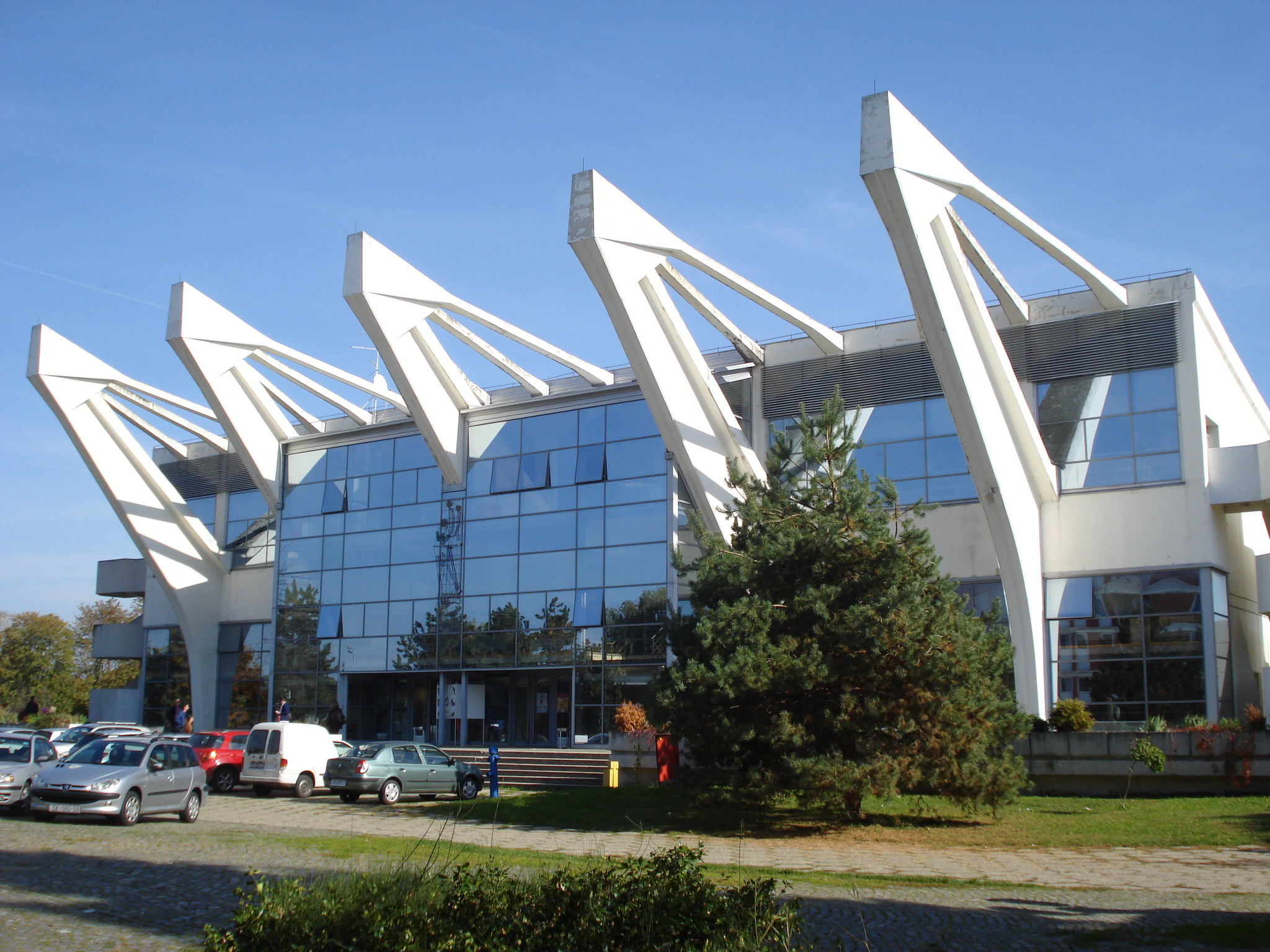 Sports hall of the High School for Construction in Čakovec, Medjimurje County, Croatia - southwest viewHrvatski: Športska dvorana Graditeljske škole Čakovec, Međimurska županija, Hrvatska - jugozapadna strana